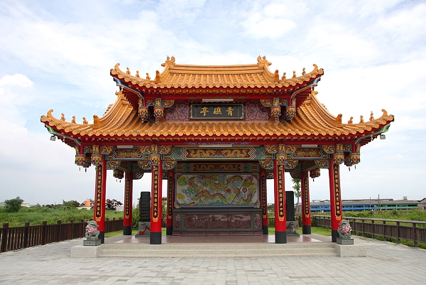 青龍宮青礁亭